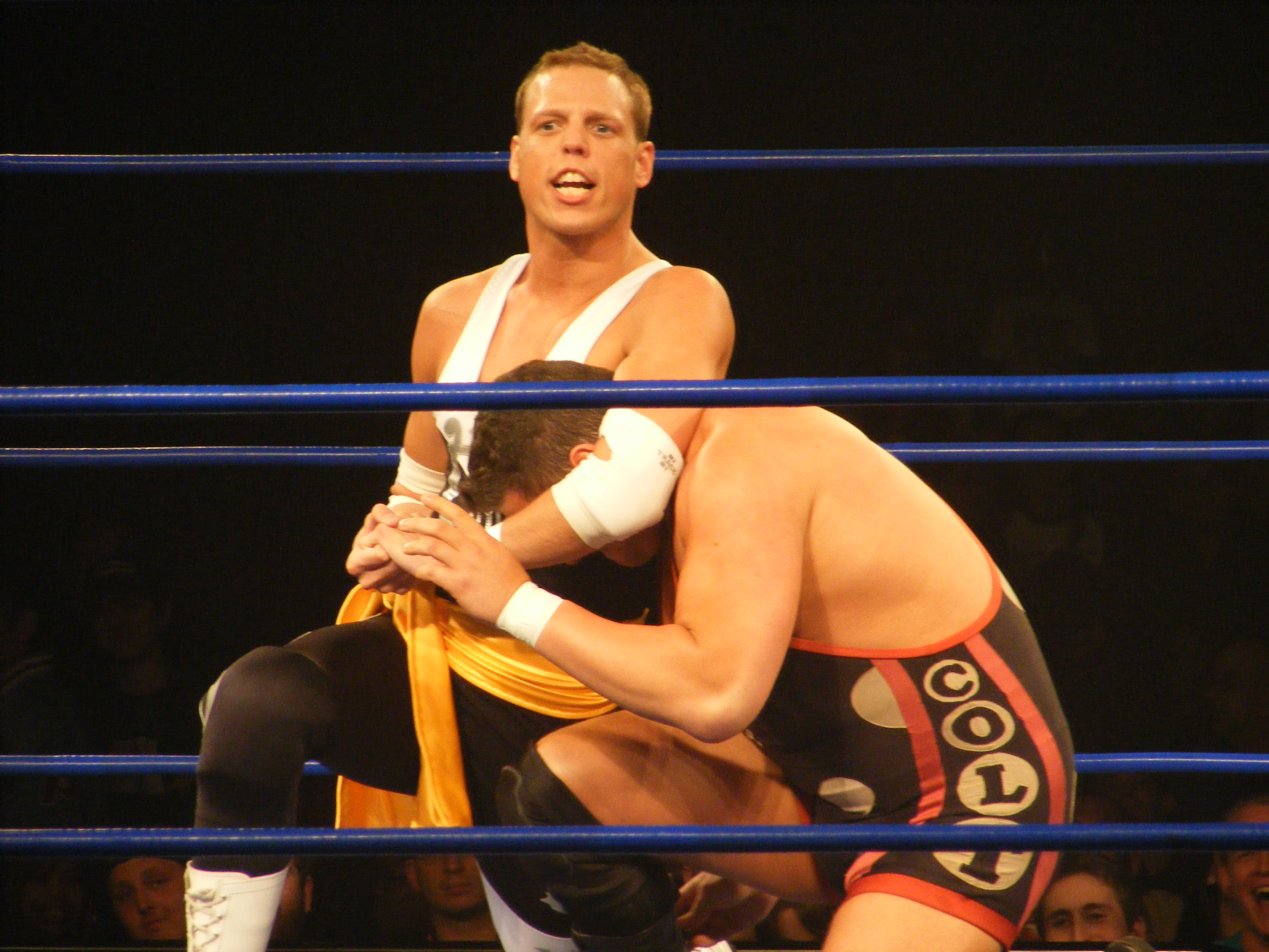 Professional wrestler Archibald Peck holding Colt Cabana in a headlock during the second day of the 2011 Chikara King of Trios tournament.